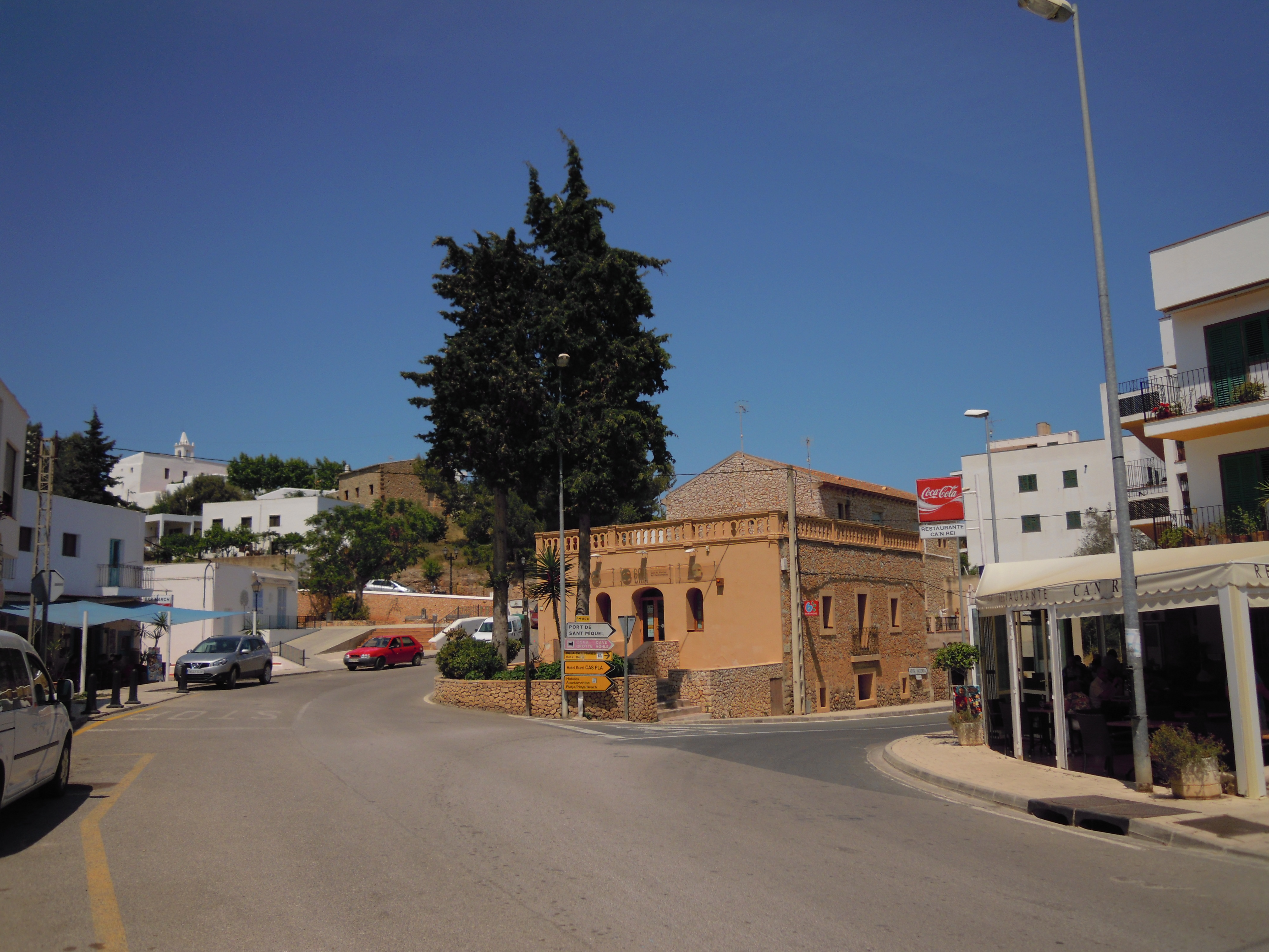 The Village of San Miguel in the municipality of Sant Joan de Labritja on the island of Ibiza, Balearic Islands of Spain